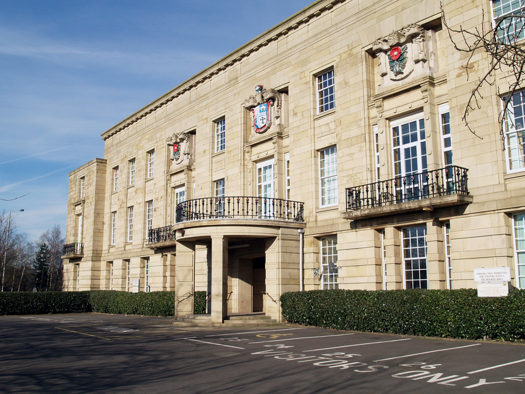 Bury Town Hall, in Bury, Greater Manchester, England. Ceremonial entrance, viewed from Knowsley Street.